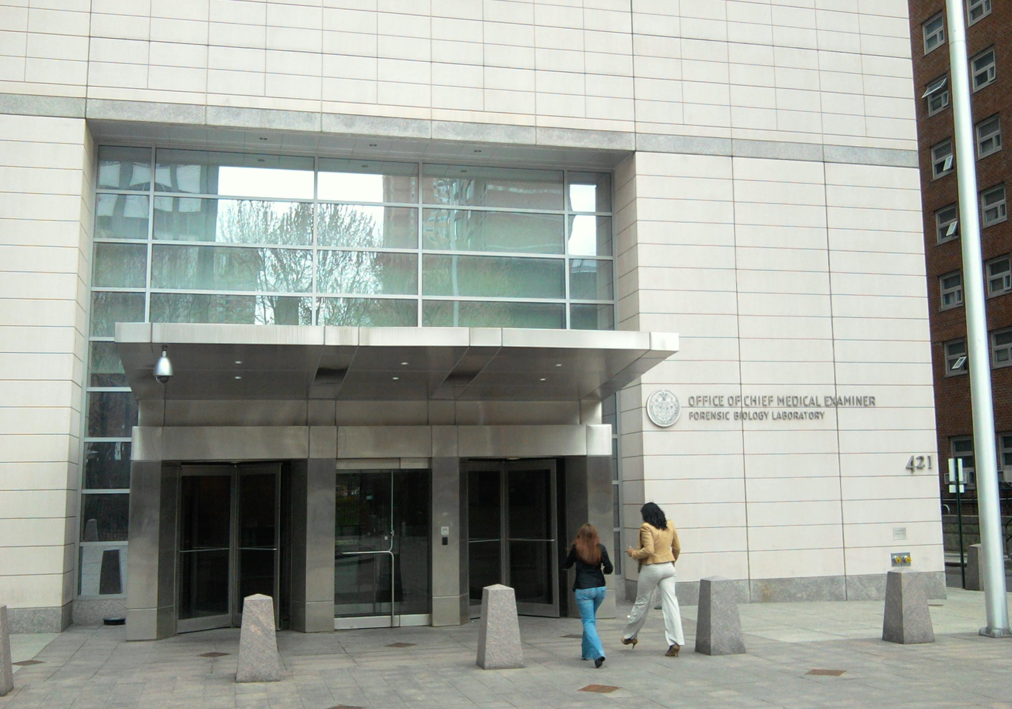 Looking east at Office of the Chief Medical Examiner Forensic Biology Laboratory on a cloudy day.